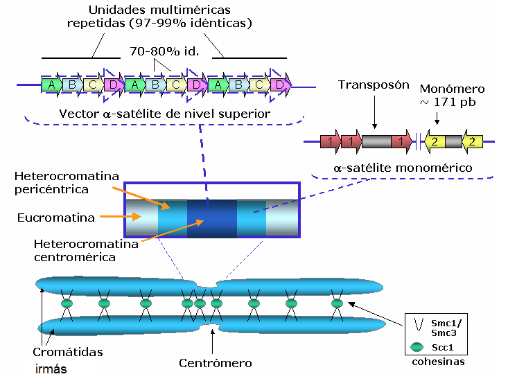 Scheme showing the organization of DNA satellite in human centromeres.